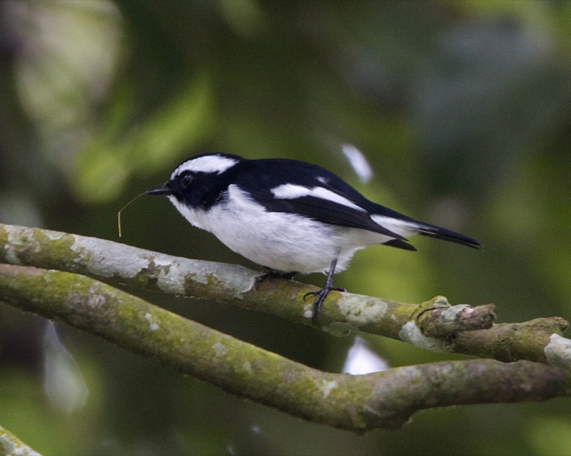 Little Pied Flycatcher - male gathering nesting material? Ficedula westermanni Location: Cibodas, Java, Indonesia 1st. February 2010 2010 690V1739